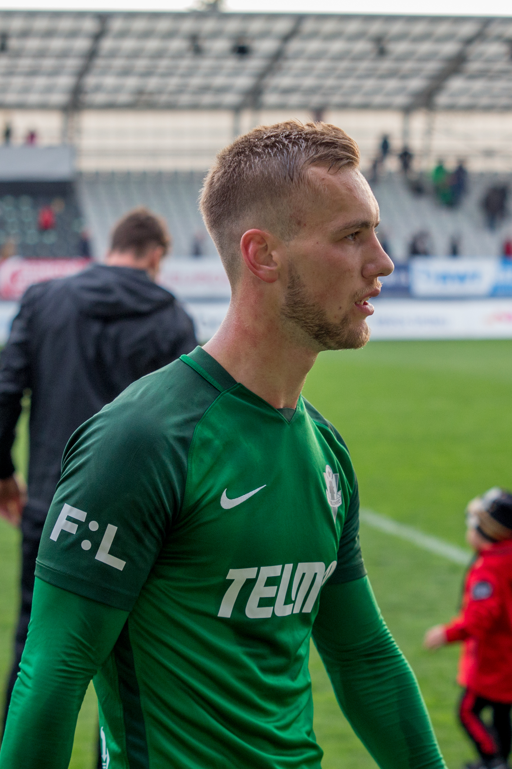 Miloš Kratochvíl at the Czech First League association football match with FK Jablonec v FC Baník Ostrava Personality rights warningAlthough this work is freely licensed or in the public domain, the person(s) shown may have rights that legally restrict certain re-uses unless those depicted consent to such uses. In these cases, a model release or other evidence of consent could protect you from infringement claims.